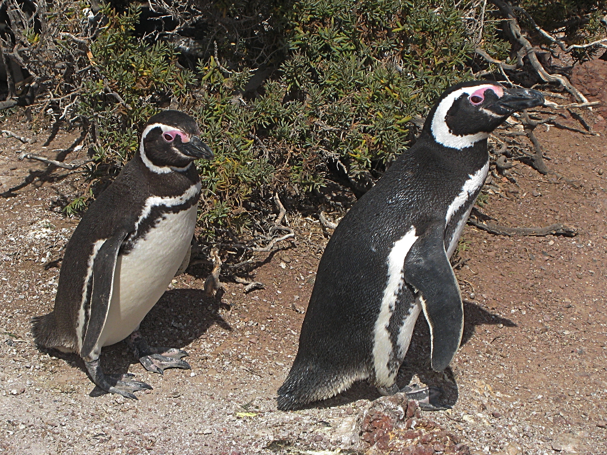 Spheniscus magellanicus, Punta Tombo reservoir, Chubut, Argentina.